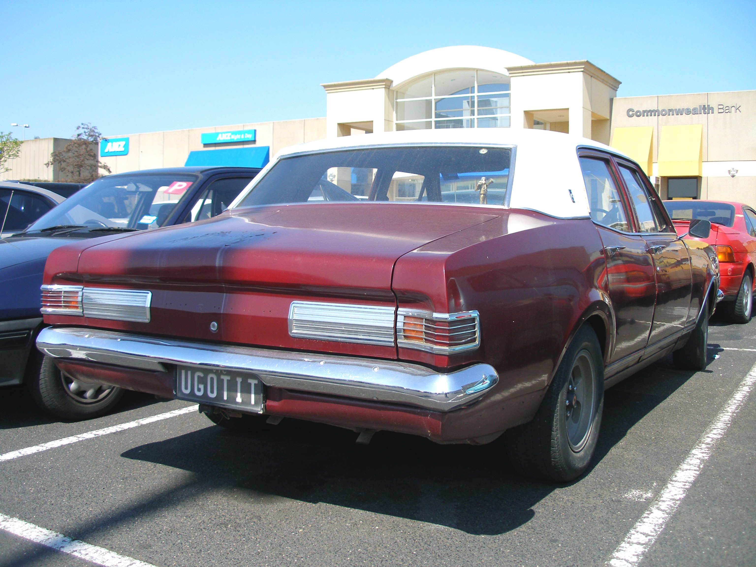 1968–1969 Holden HK Premier sedan, photographed in Victoria, Australia.